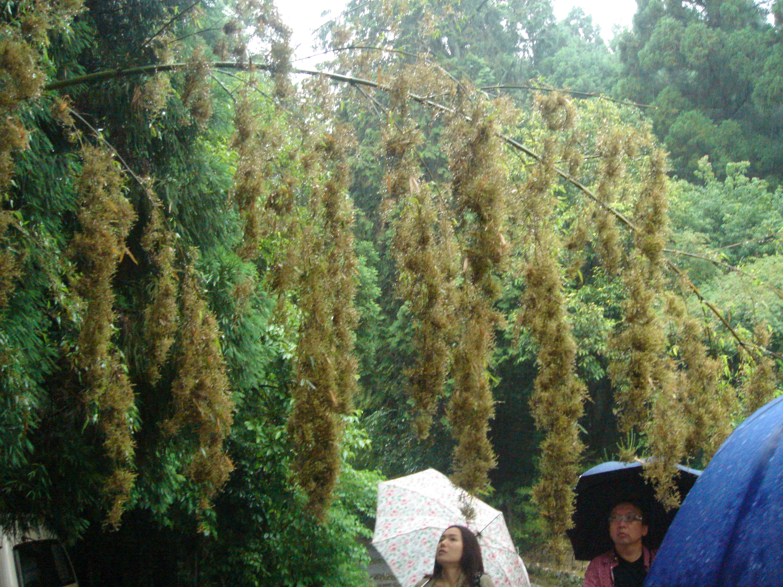 Bamboo trees flowering